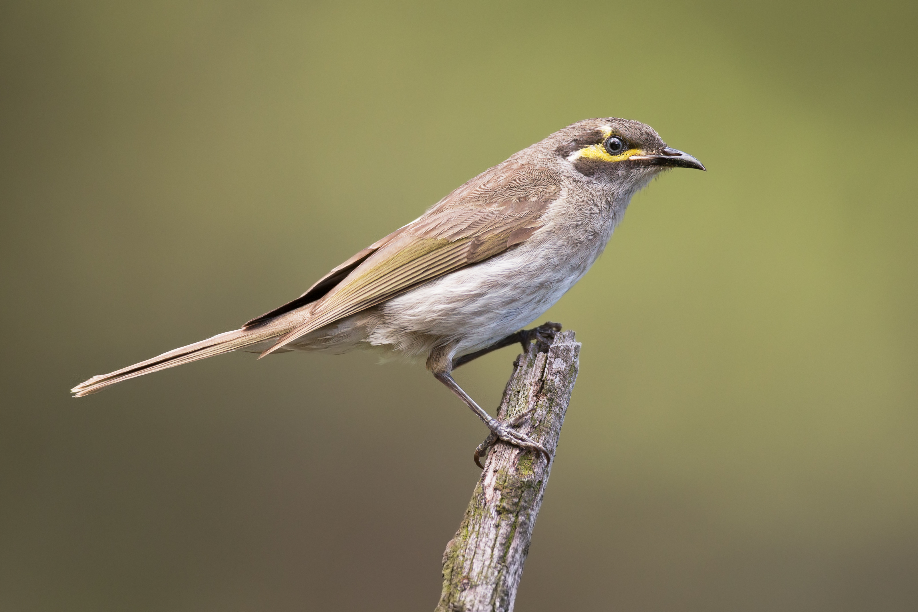 Yellow-faced Honeyeater (Caligavis chrysops), Lake Parramatta Reserve, New South Wales, Australia